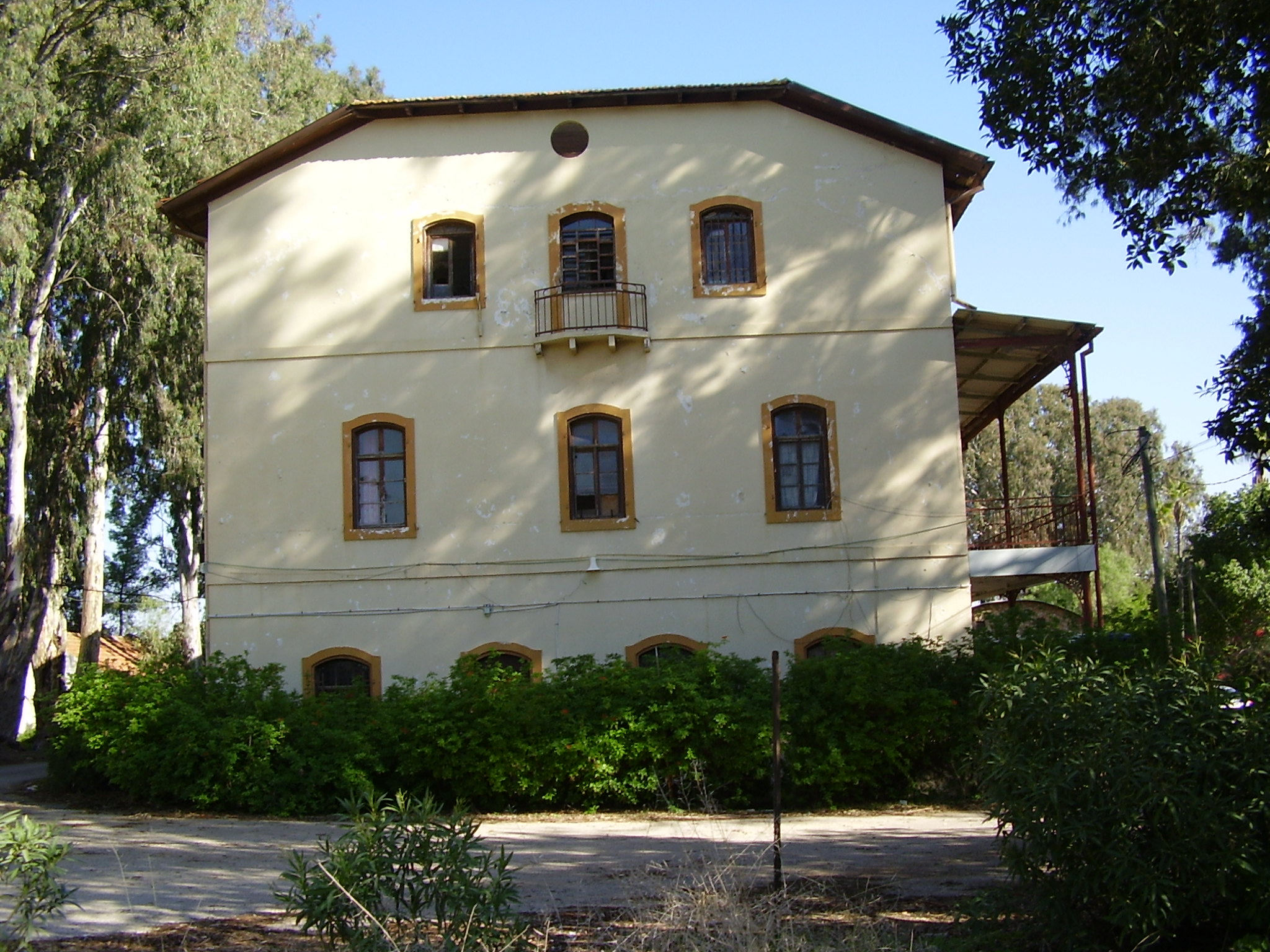 The teacher hostel and orphanage also called Philistean Orphanage, a typical German building built in 1913 on the instigation of Matthäus Spohn (1866-1935) to house the apprentices from the Syrian Orphanage, Jerusalem, trained here on the orphanage's own farm in then Bir Salem, now kibbutz Netzer Sereni, Israel.